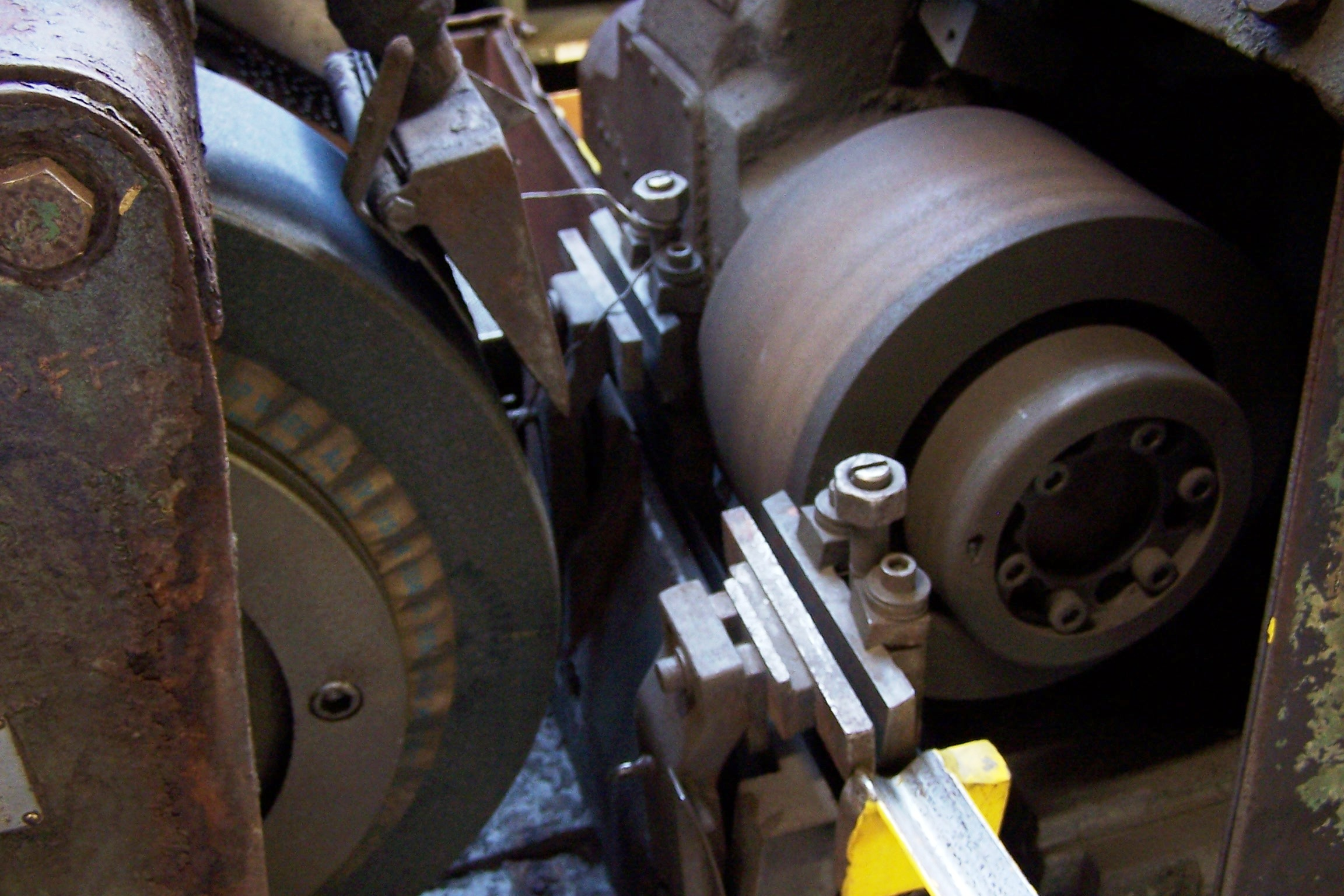 A close-up of the grinding wheel and drive wheel of a centerless grinder.